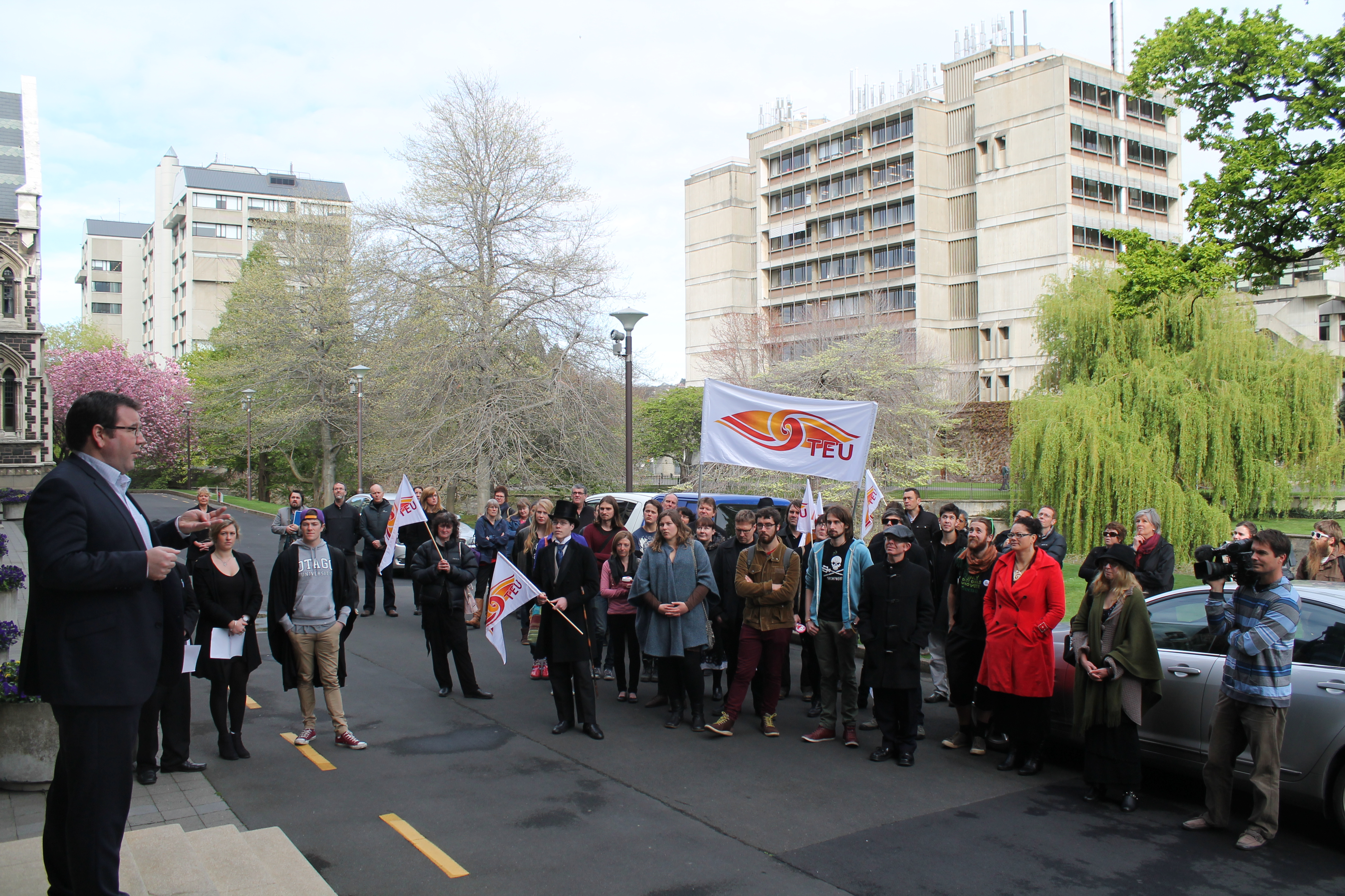 8 October 2013 - opposing the government's proposal to cut staff, student and community representatives from university councils